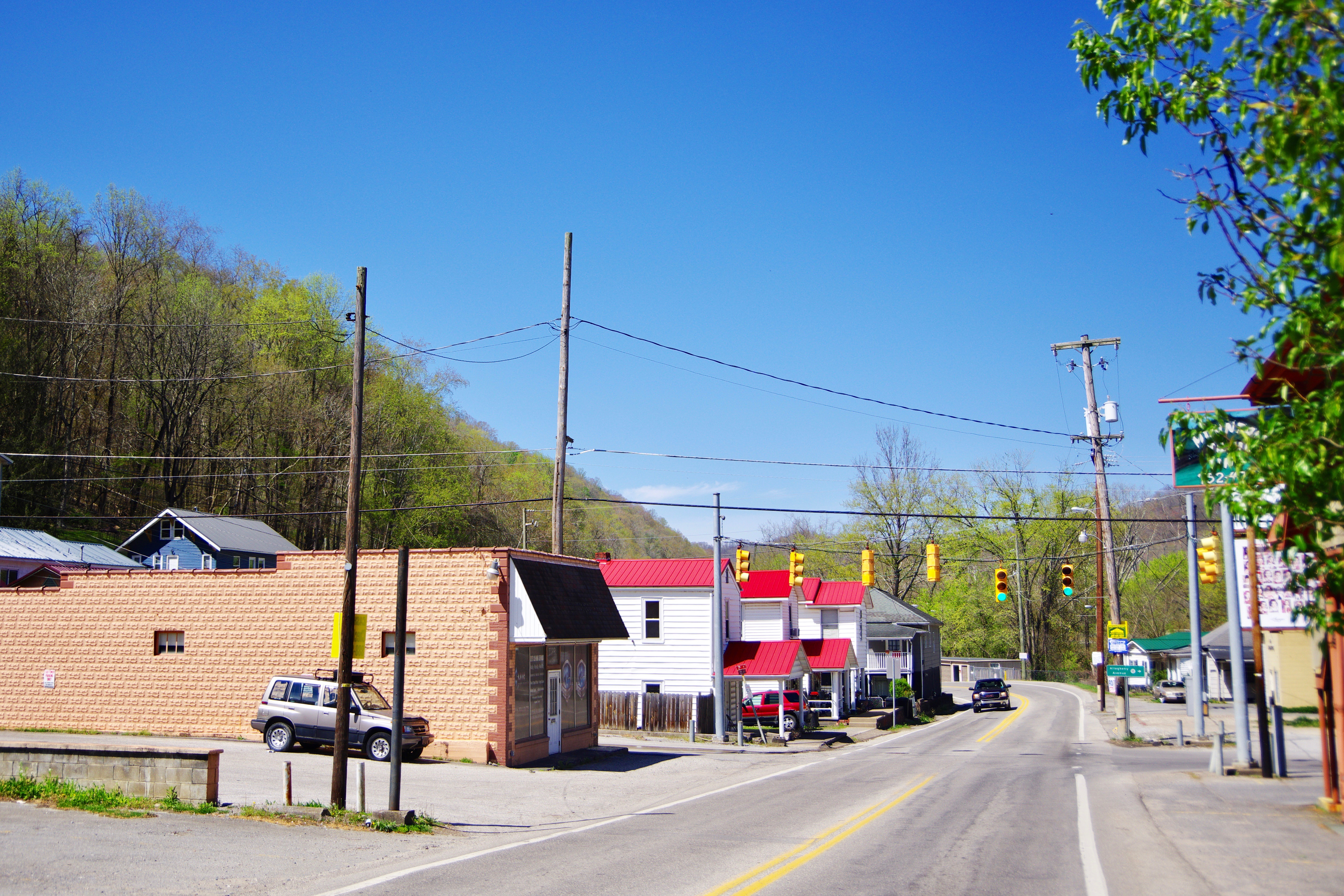 Businesses along West Virginia Route 10 in West Logan, West Virginia, United States.